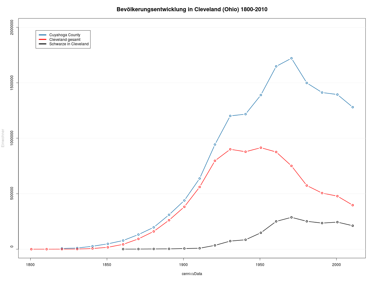 Population of Cleveland, Ohio from 1800 to 2010. (Labels are in German).